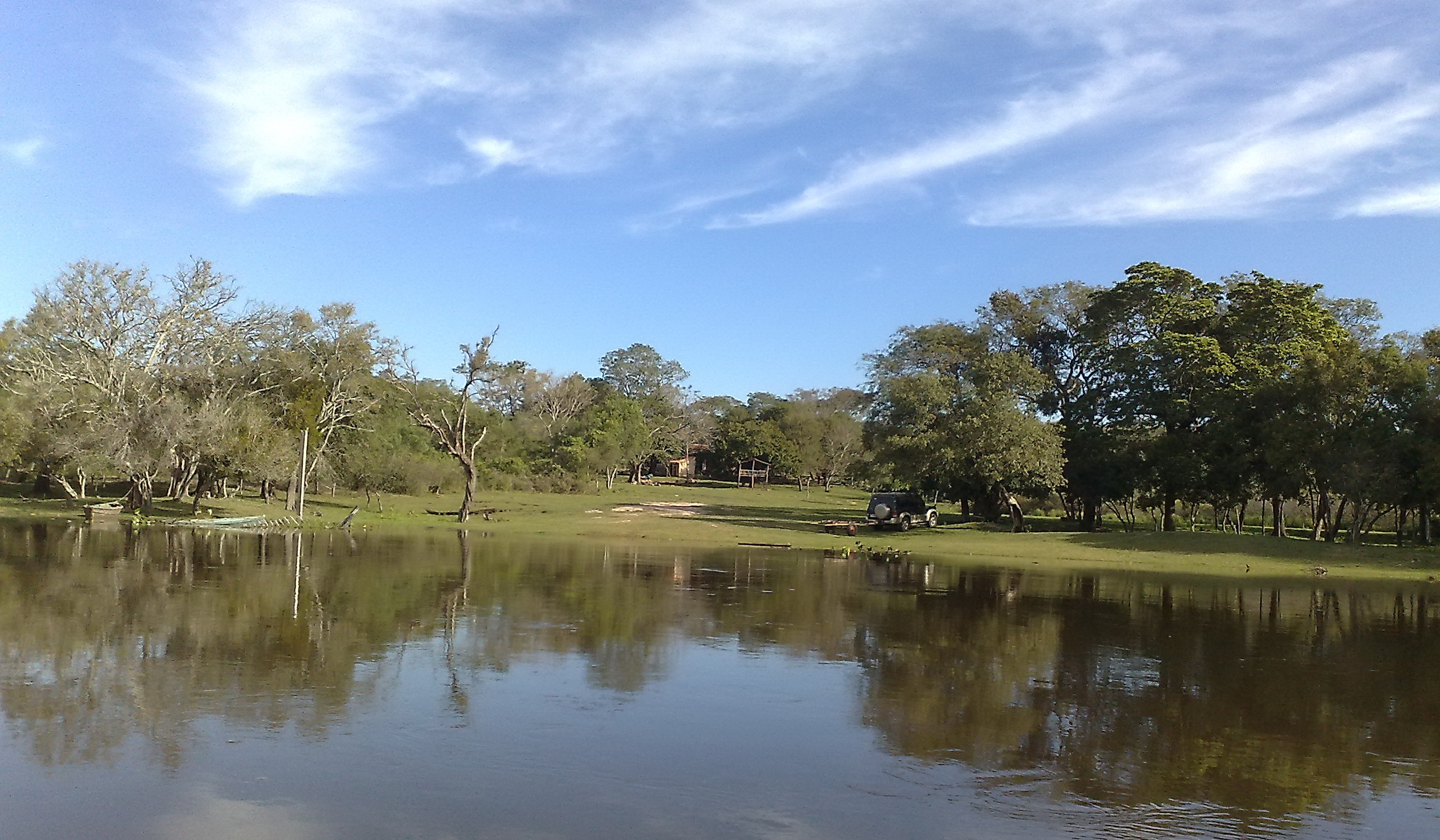 Panoramic view from the Manduvira river